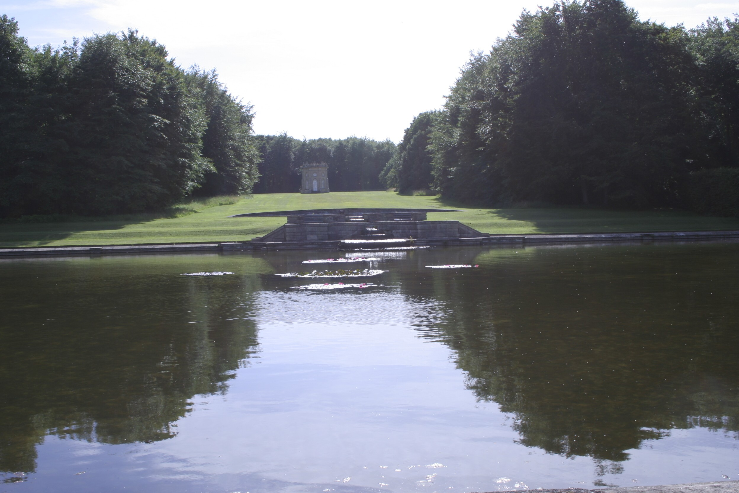 Bramham Park